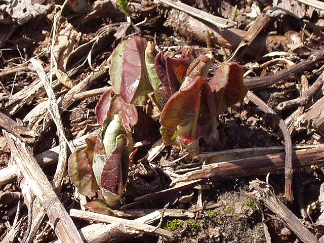 Reynoutria japonica, new shoots in spring, Aomori, Japan